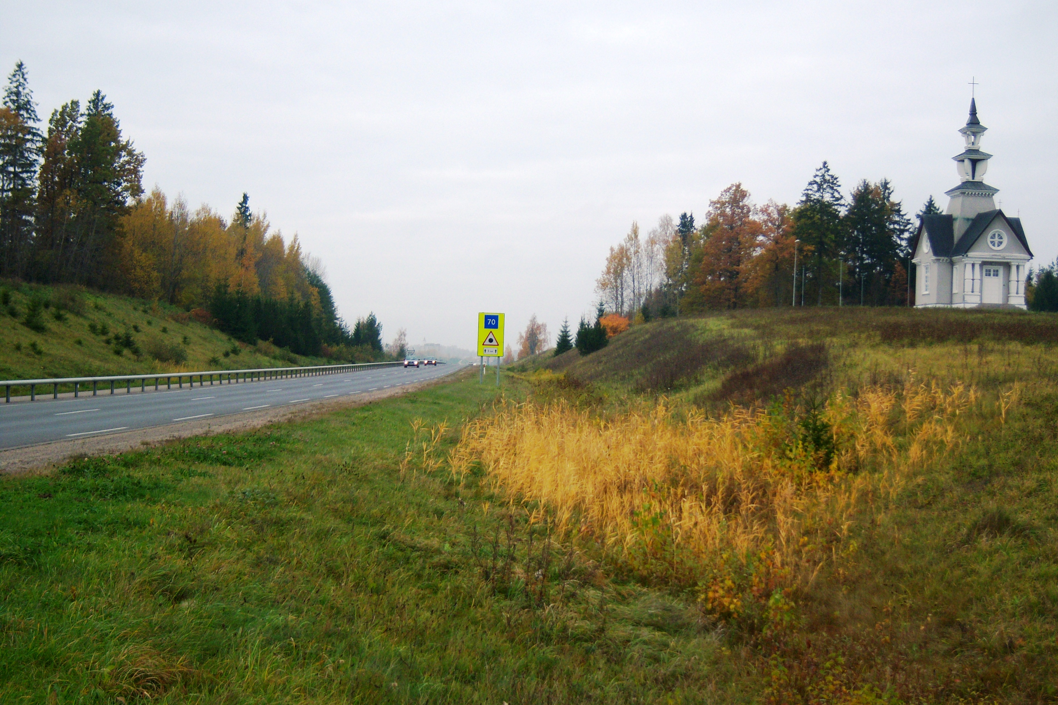 Road KK160, near Rainiai, Telšiai district, Lithuania